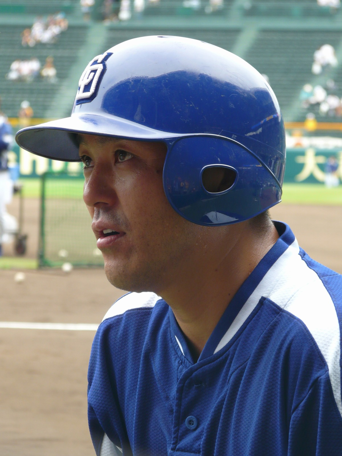 Chunichi Dragons/Motonobu Tanishige